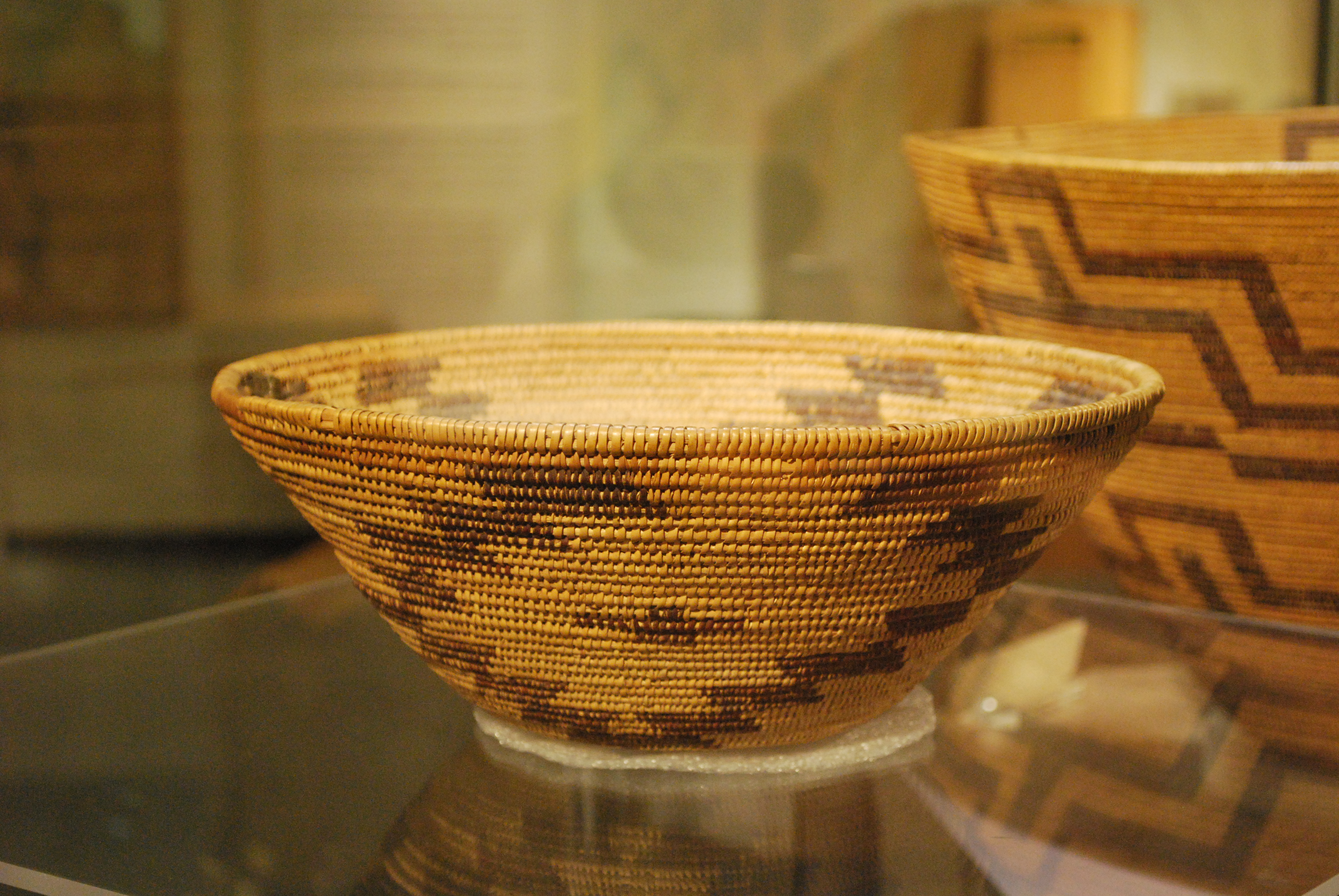 Maidu used coiled baskets for many of thier daily needs, including fish and bird traps, storage and burden baskets. These baskets were temporary on exhibit at the Maidu Interpretive Center, but have since been returned to their original owner.